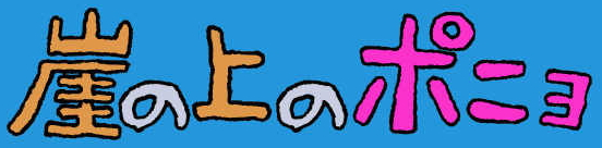 Gake no ue no Ponyo (Ponyo) title